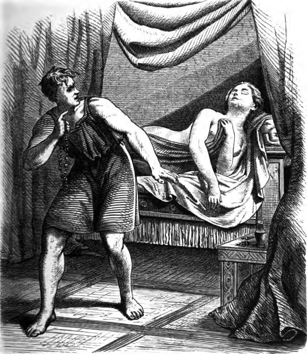 Captioned as "Loke stiehlt Freyas Halsband". Loki steals Freyja's necklace.